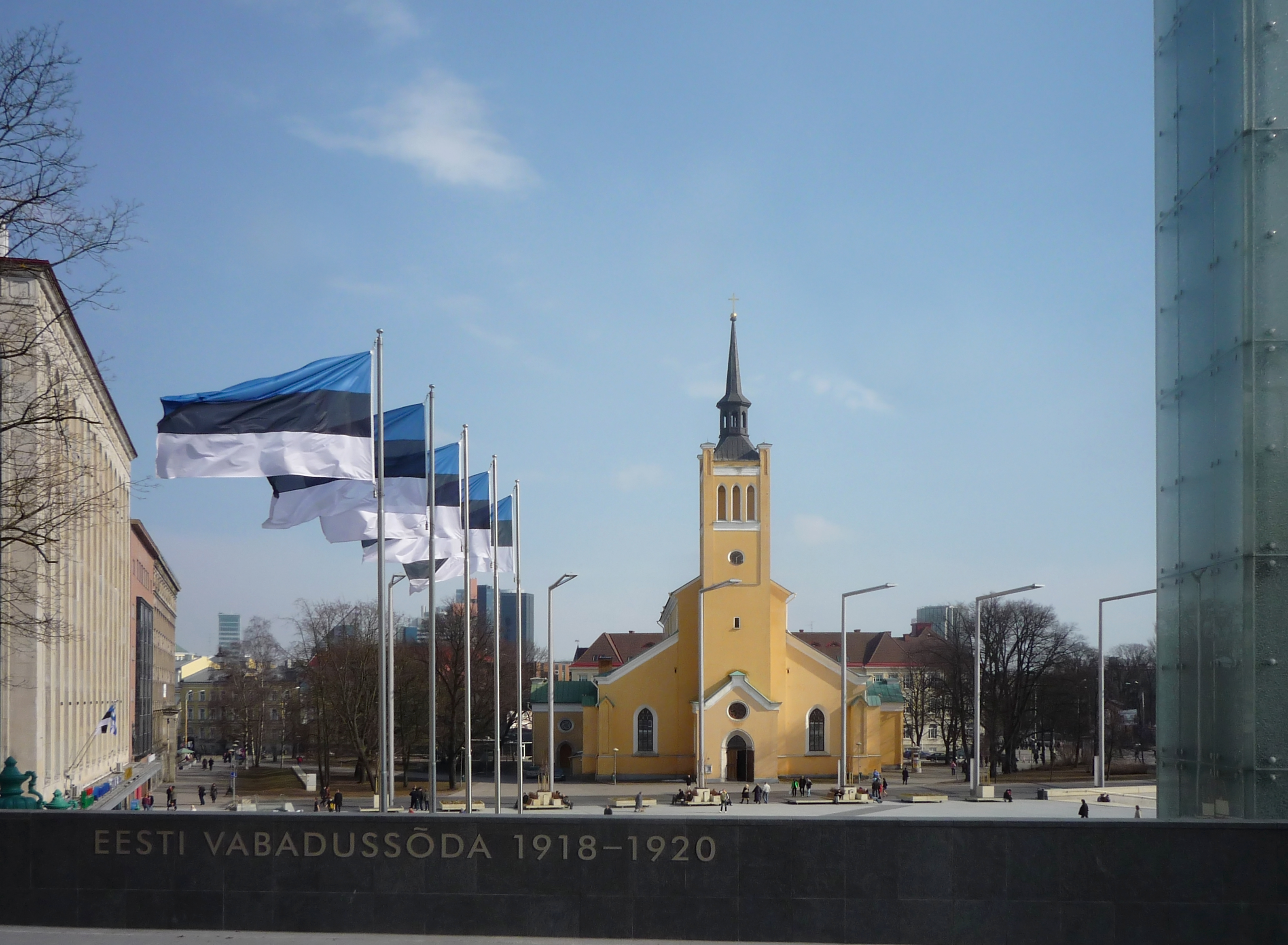 View on Square of Freedom in Tallinn, Estonia.